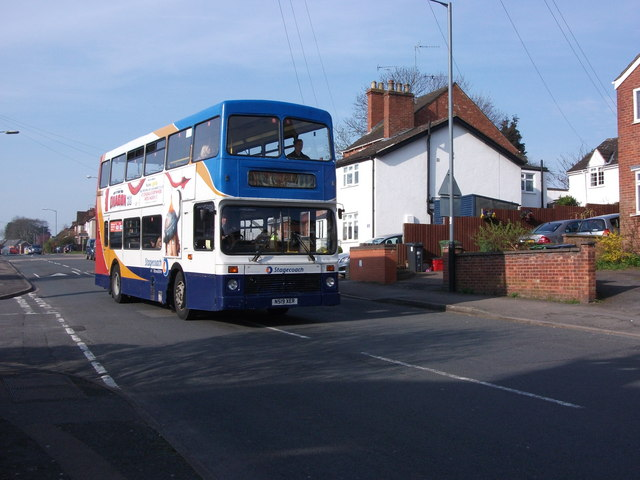 A Stagecoach in Warwickshire bus on route U2 in Albion Street, Kenilworth, Warwickshire. Route U2 operates at weekends only between Leamington Spa and the University of Warwick via Kenilworth. The bus is a Northern Counties Palatine I, fleet number 16599.